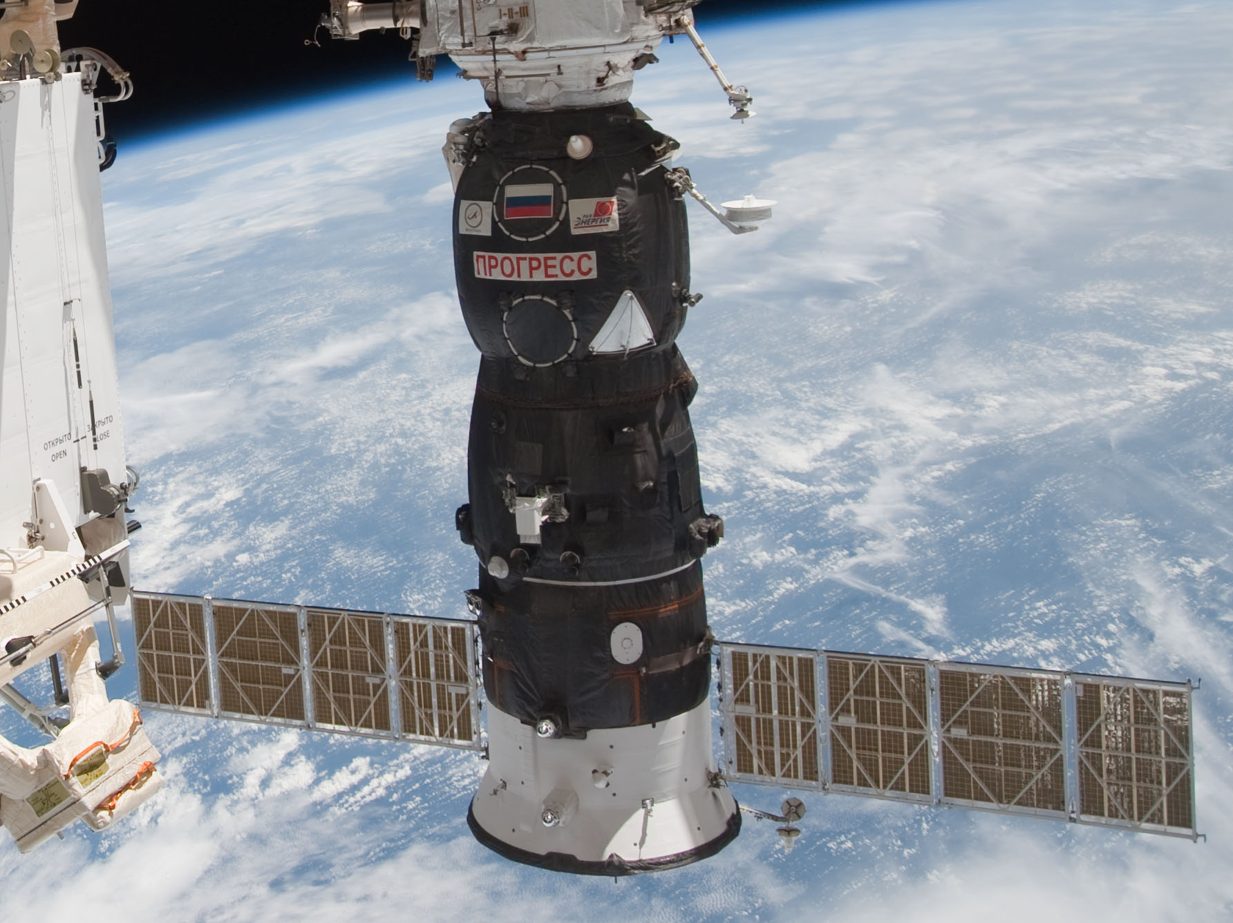 The Progress M-05M cargo spacecraft.